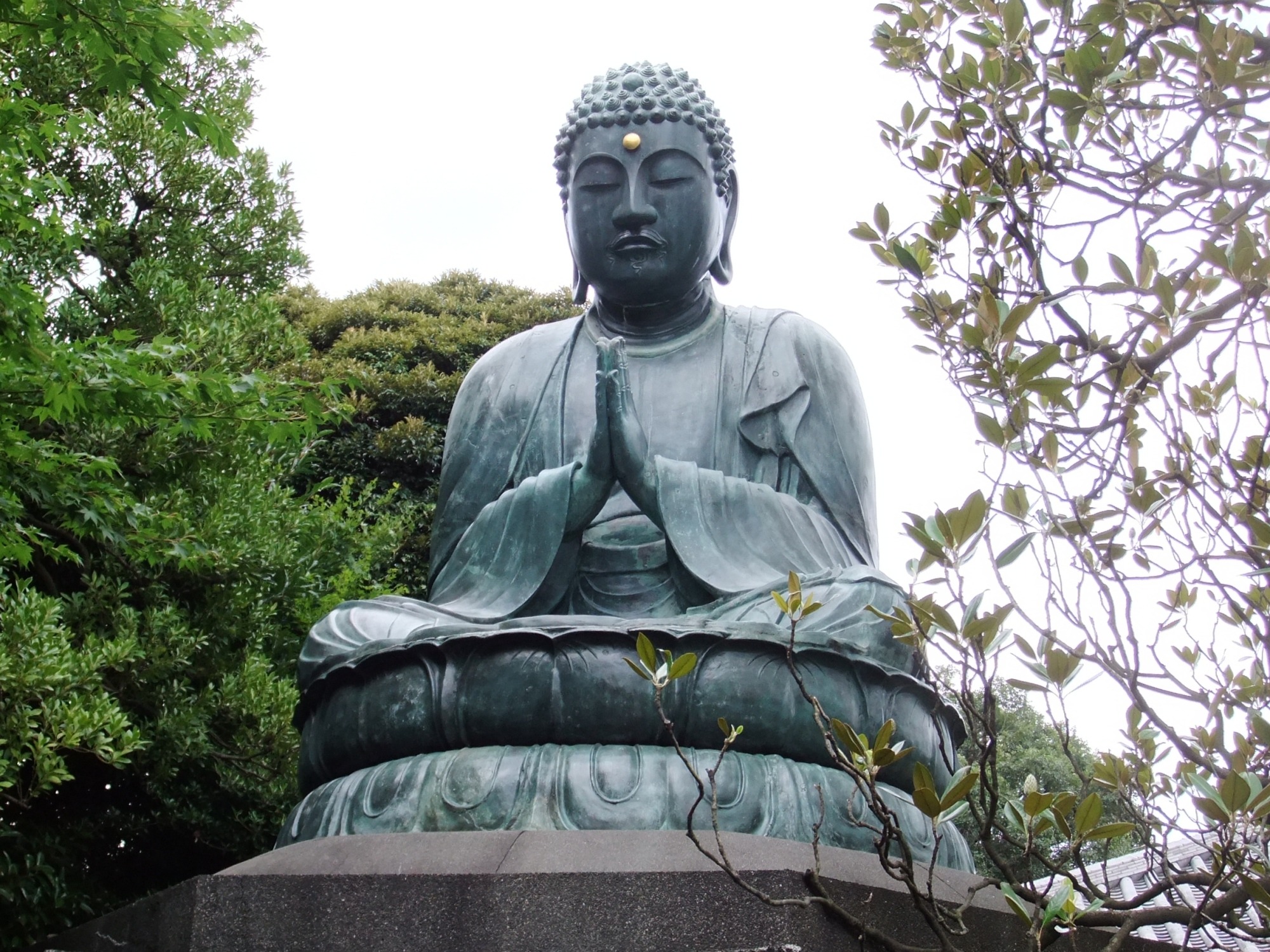 Shaka-Nyorai at Tennō-ji temple in Taitō, Tokyo